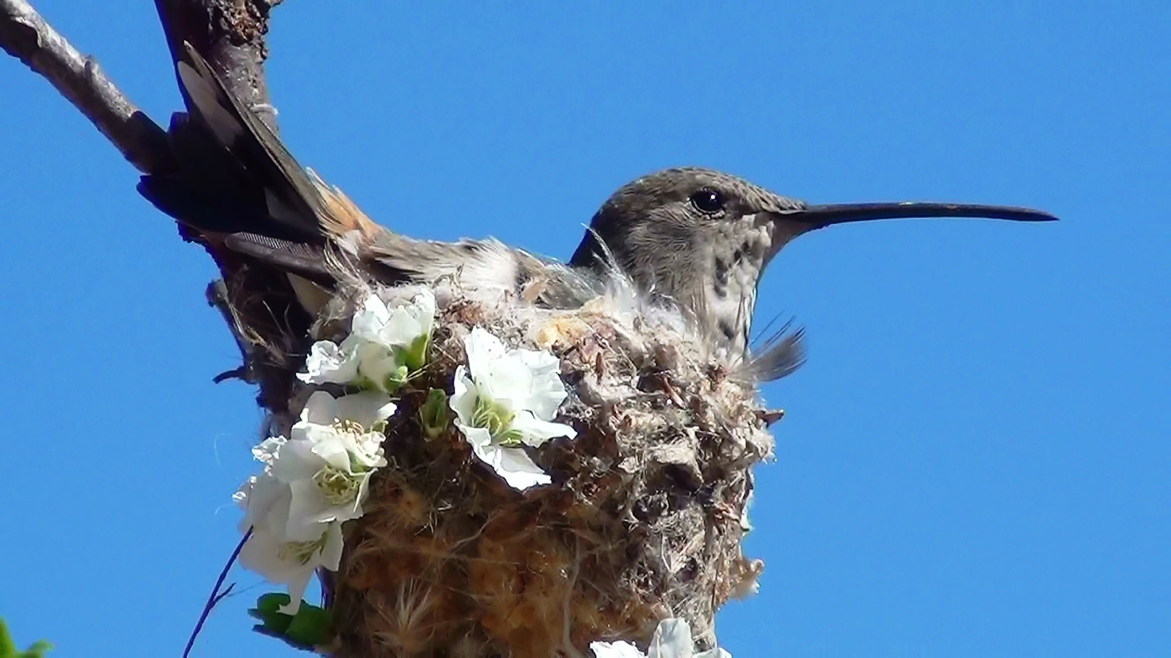 Hummingbird in Copiapó, Chile. The tree is probably of the genus Prunus.